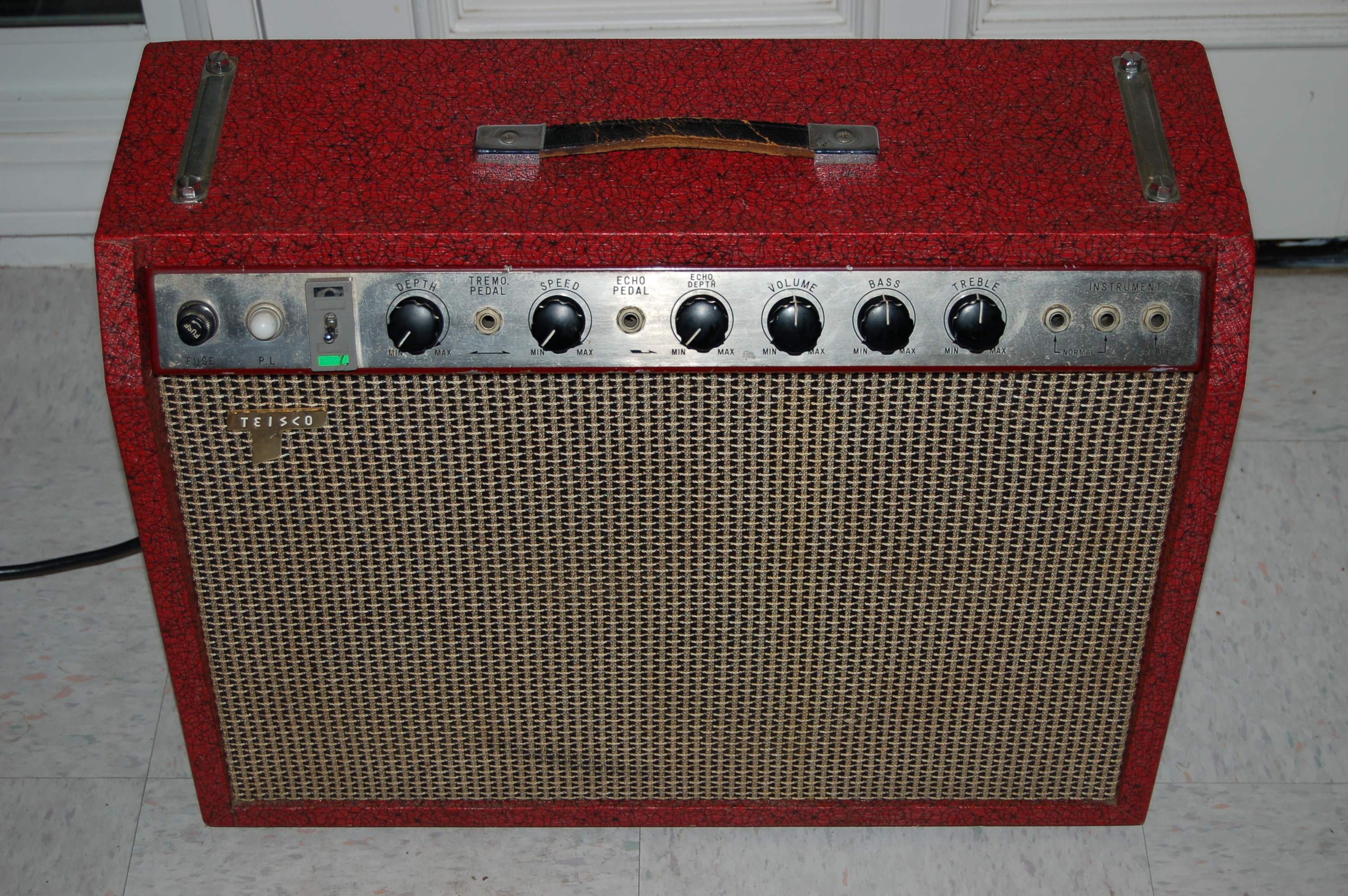 The vinyl covering on this Teisco amplifier is unique. There are two "Normal" inputs and one "Treble" input, instead of the two (or four) inputs found on many other amps. All three inputs are controlled by the single bass, treble and tone controls. The reverb is called "Echo," and the jacks for the tremolo and "Echo" switching pedals are on the front of the amp. The power switch looks like a replacement. This is an interesting little amp, and I've never seen another one like it. Flickr Tags: tremolo 6V6GT valve amp tube amp vacuum tube amp tube guitar amp vacuum tube guitar amp amp amplifier guitar amp guitar amplifier Teisco Del Rey Teisco Teisco amp Teisco guitar amp Teisco guitar amplifier.